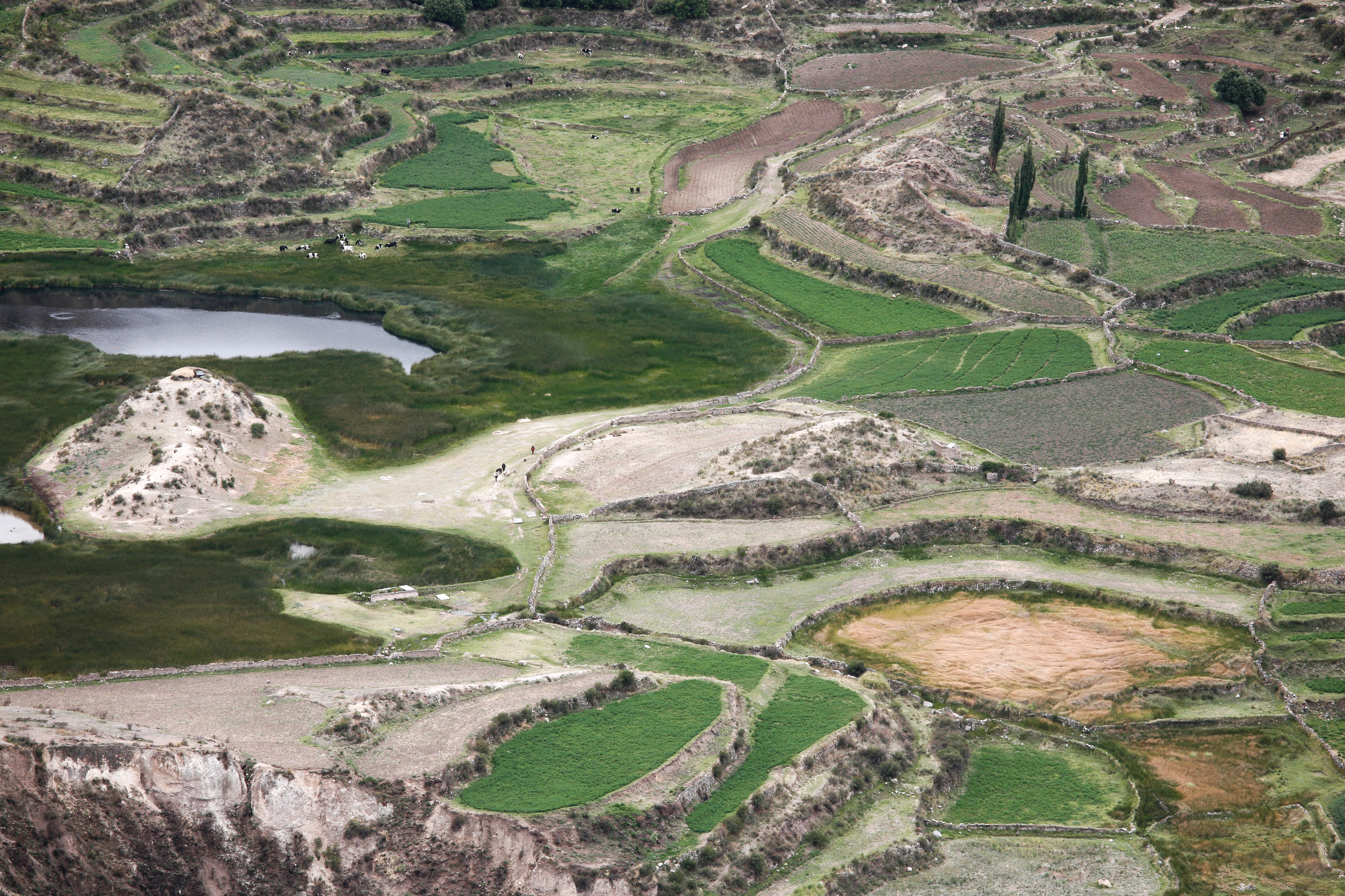 Look carefully and you will see people trekking.